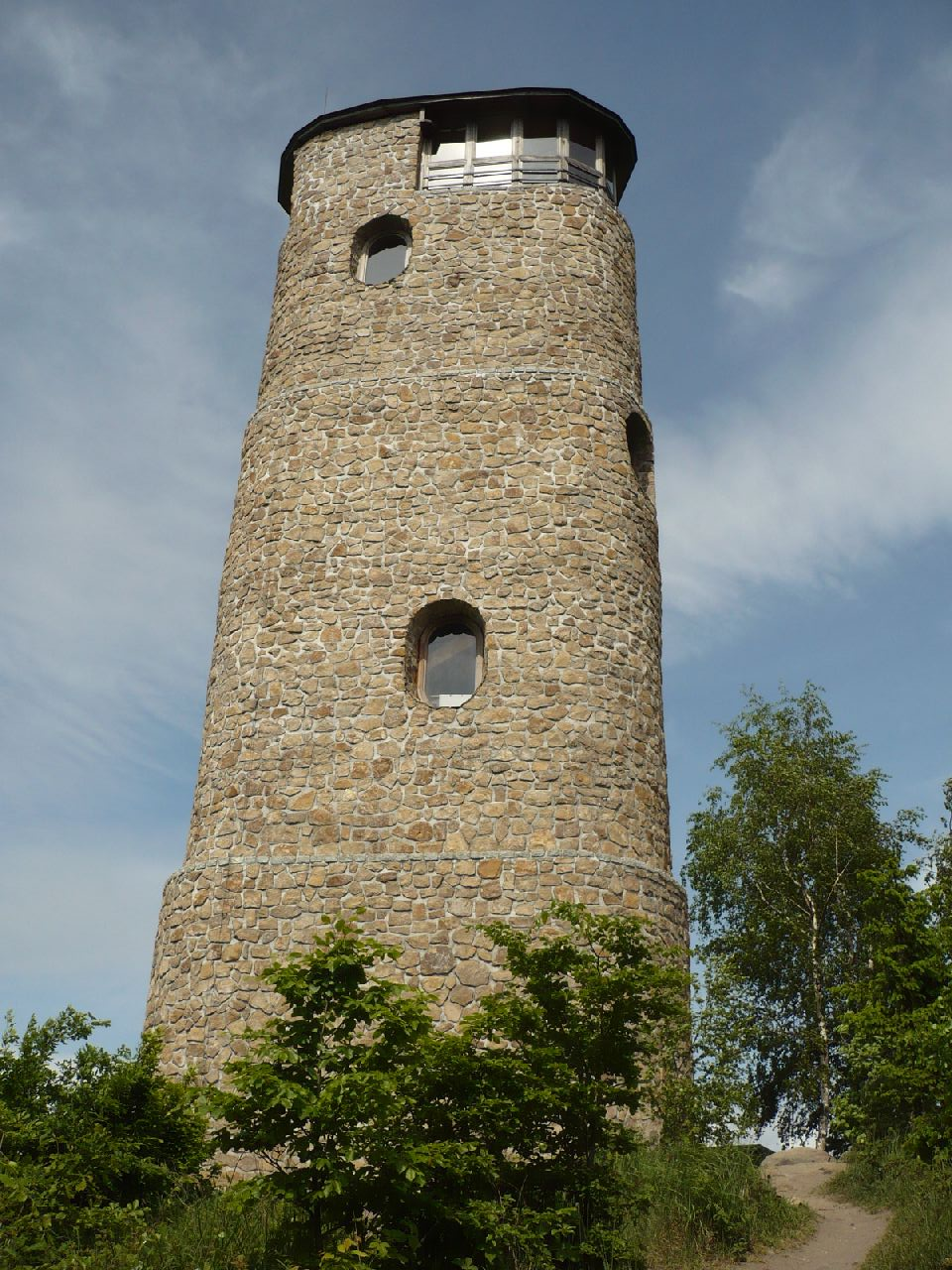 Observation tower Brdo, view from South